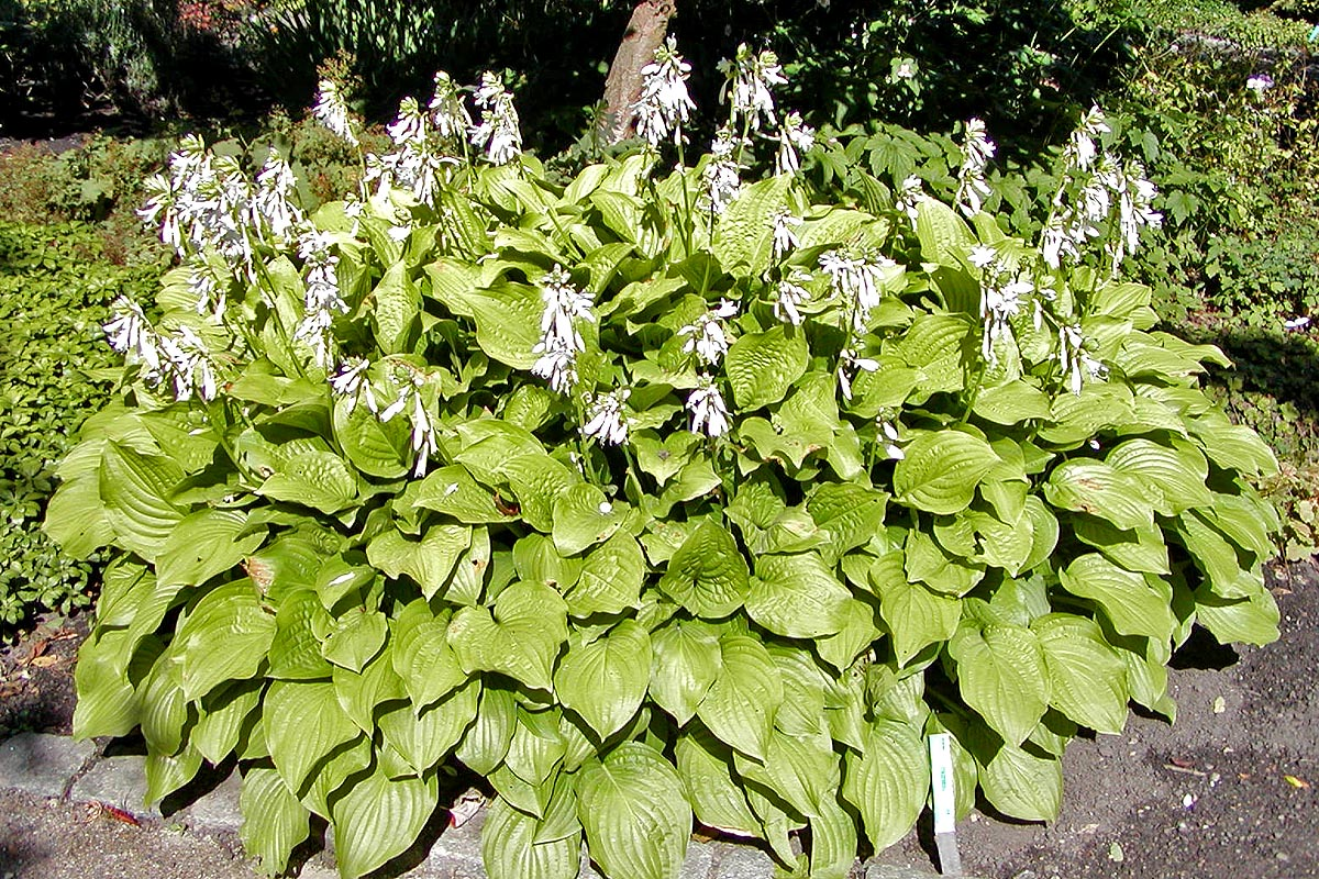 Photo of Hosta plantaginea cv. 'Royal Standard' at Aarhus Botanical Garden